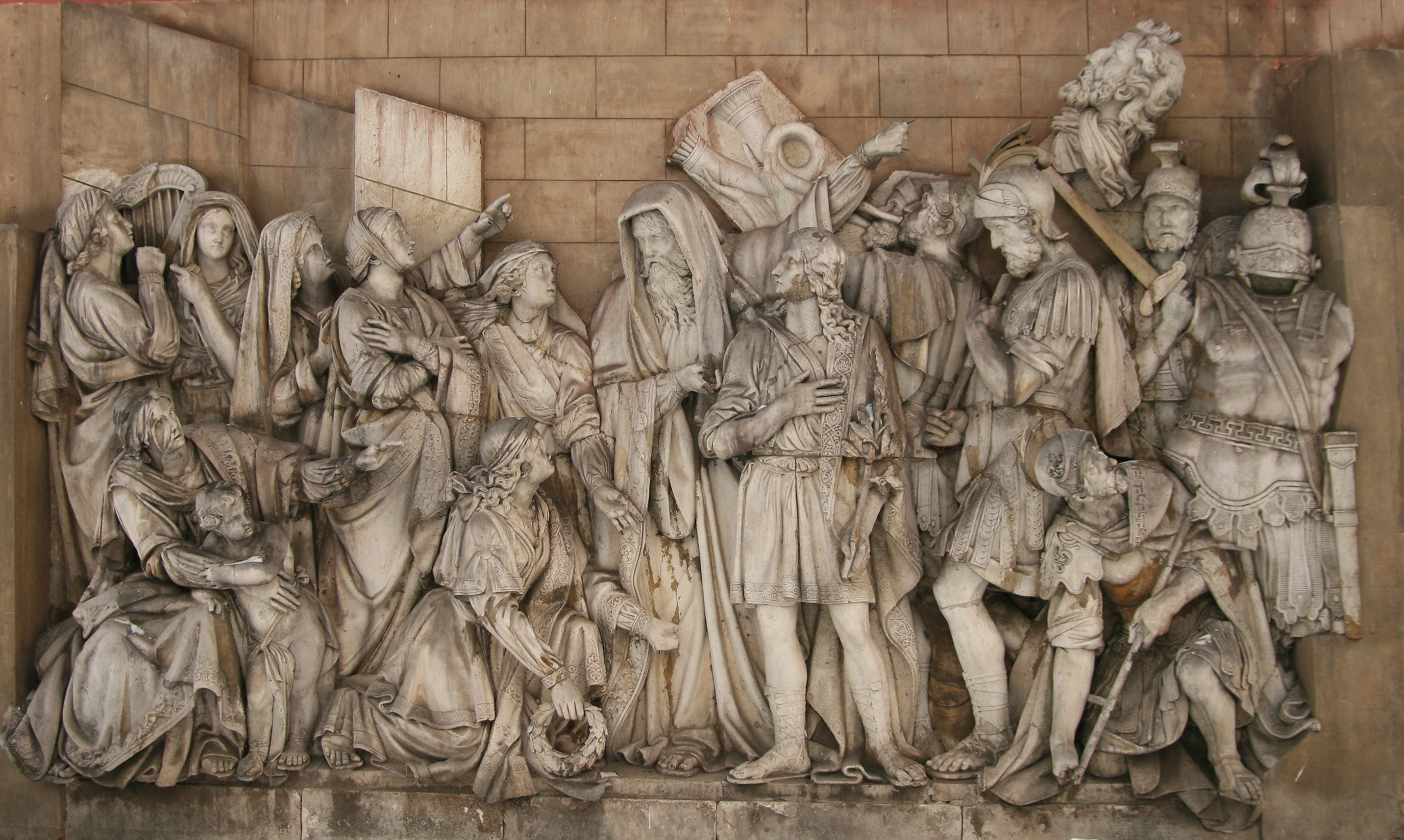 A preserved relief of the original Christ the Saviour Cathedral, Donskoy Monastery, Moscow